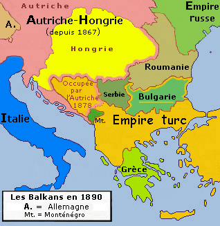 Historic map of the Balkan peninsula, 1890 (corrected)